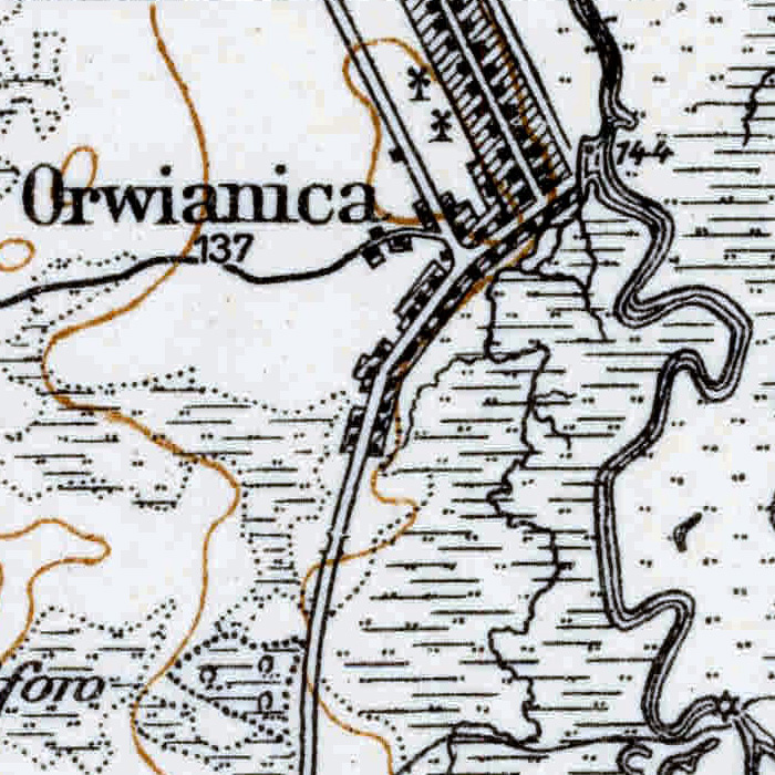 Orvianytsia on the map "Karte des Westlichen Russlands", T 36, 1917. According to Kujawsko-Pomorska Digital Library the map is in the public domain.